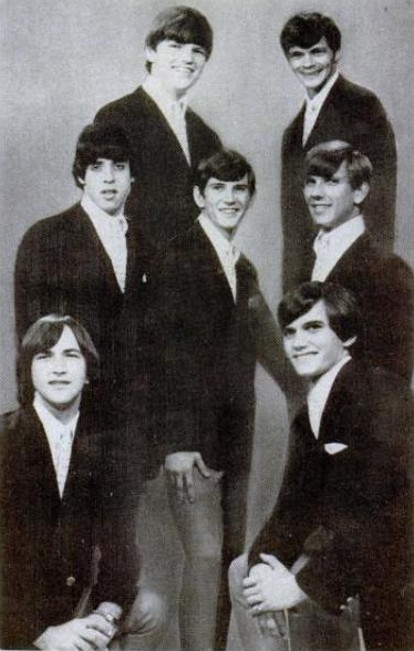 Trade ad for The Gentry's single "Keep On Dancin'". Copyright details There are no copyright markings as can be seen at the full view link. The ad is not covered by any copyrights for Billboard. US Copyright Office page 3-magazines are collective works (PDF) "A notice for the collective work will not serve as the notice for advertisements inserted on behalf of persons other than the copyright owner of the collective work. These advertisements should each bear a separate notice in the name of the copyright owner of the advertisement."